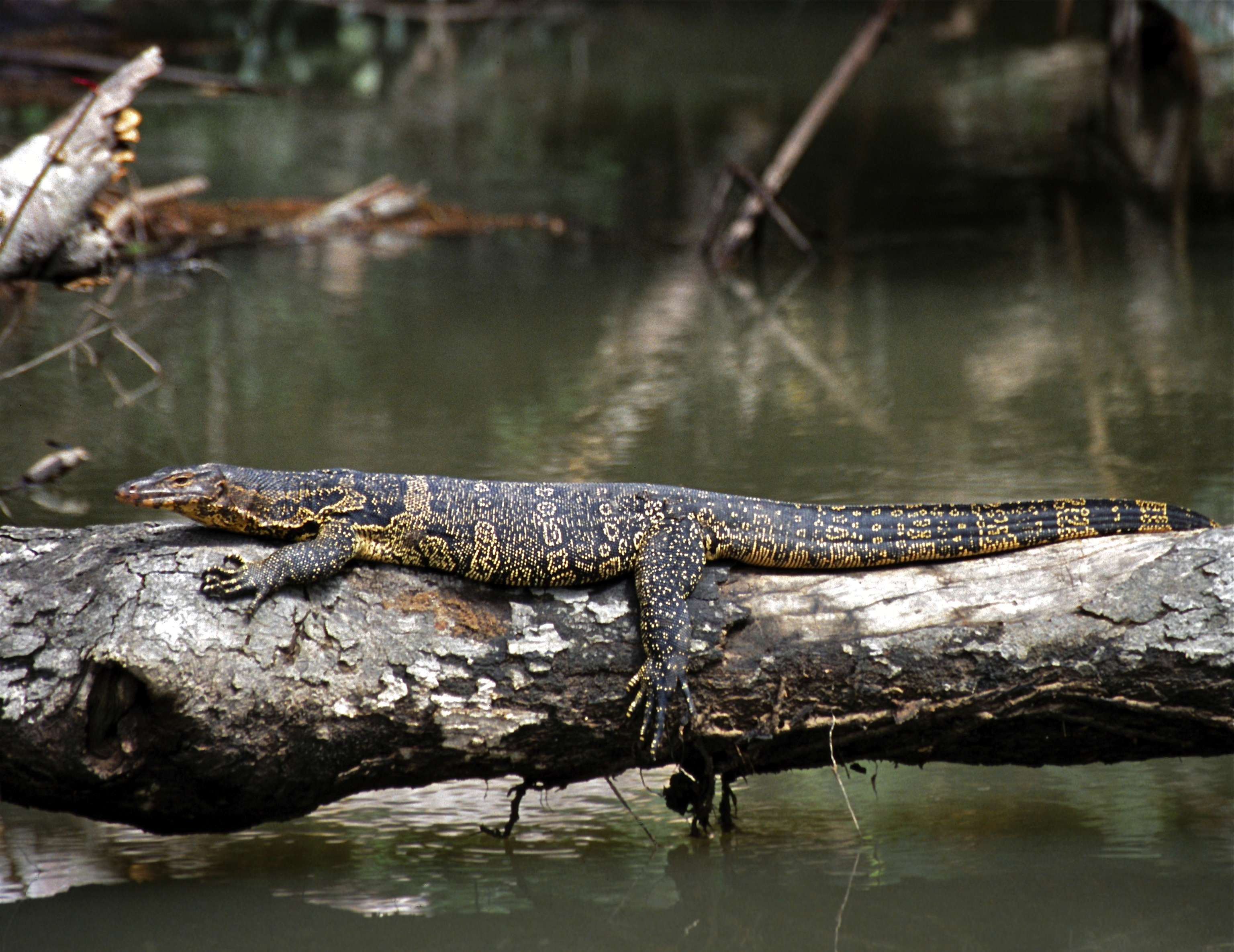 Khao Yai NP, THAILAND Scanned Slide from 2003